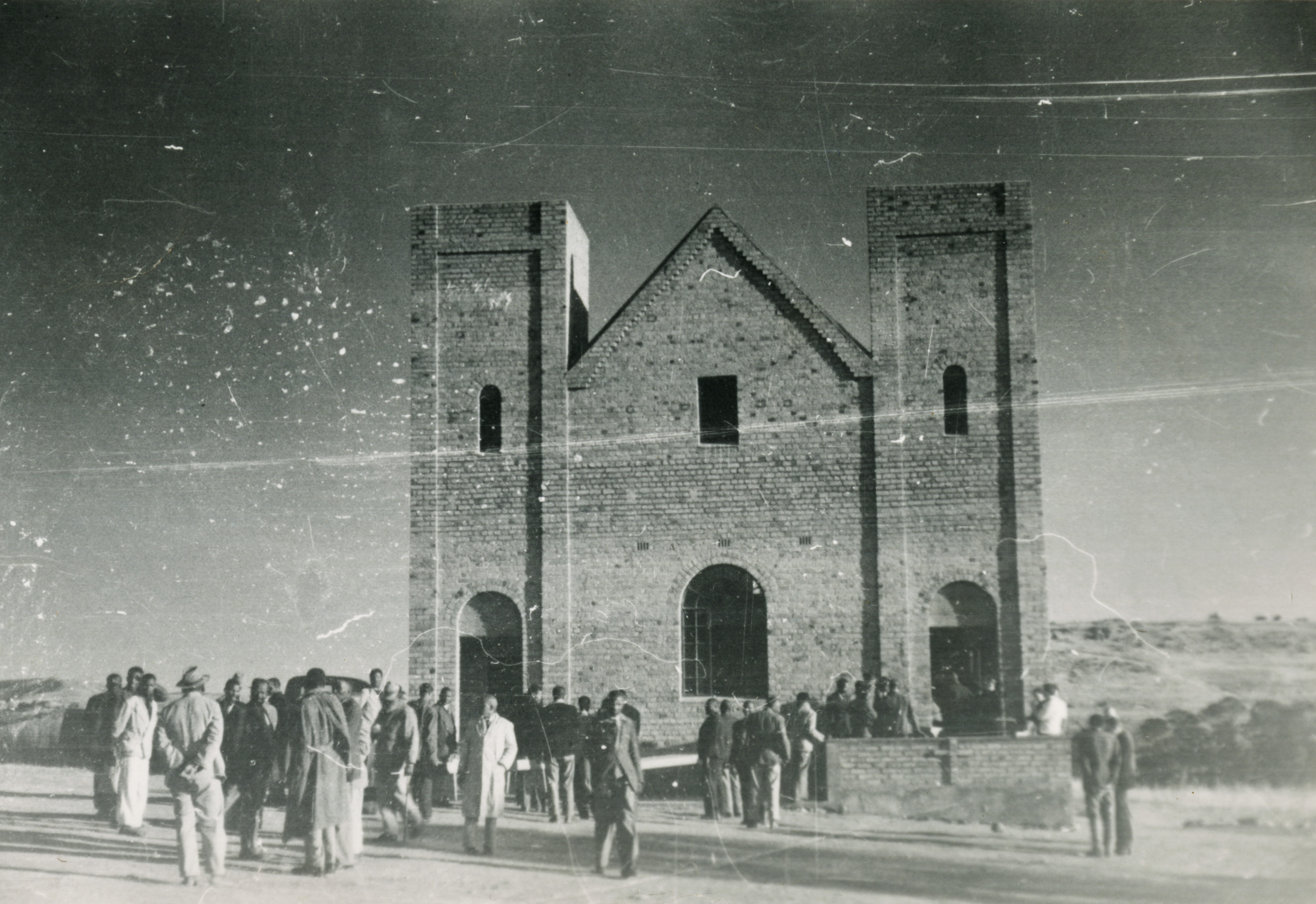 Local identifier: SFF 89203_0015 Photographer: Unknown. Caption: "The new church at Bether to thanks God for the Gospel in Swaziland for 58 years. All paid for. Dette er den nye kirken i Bethel som takk til Gud for Evangeliet i Swaziland for 58 aar. Alt er betalt." Photograph year: ~1930 source The reverse side of this image can be seen here